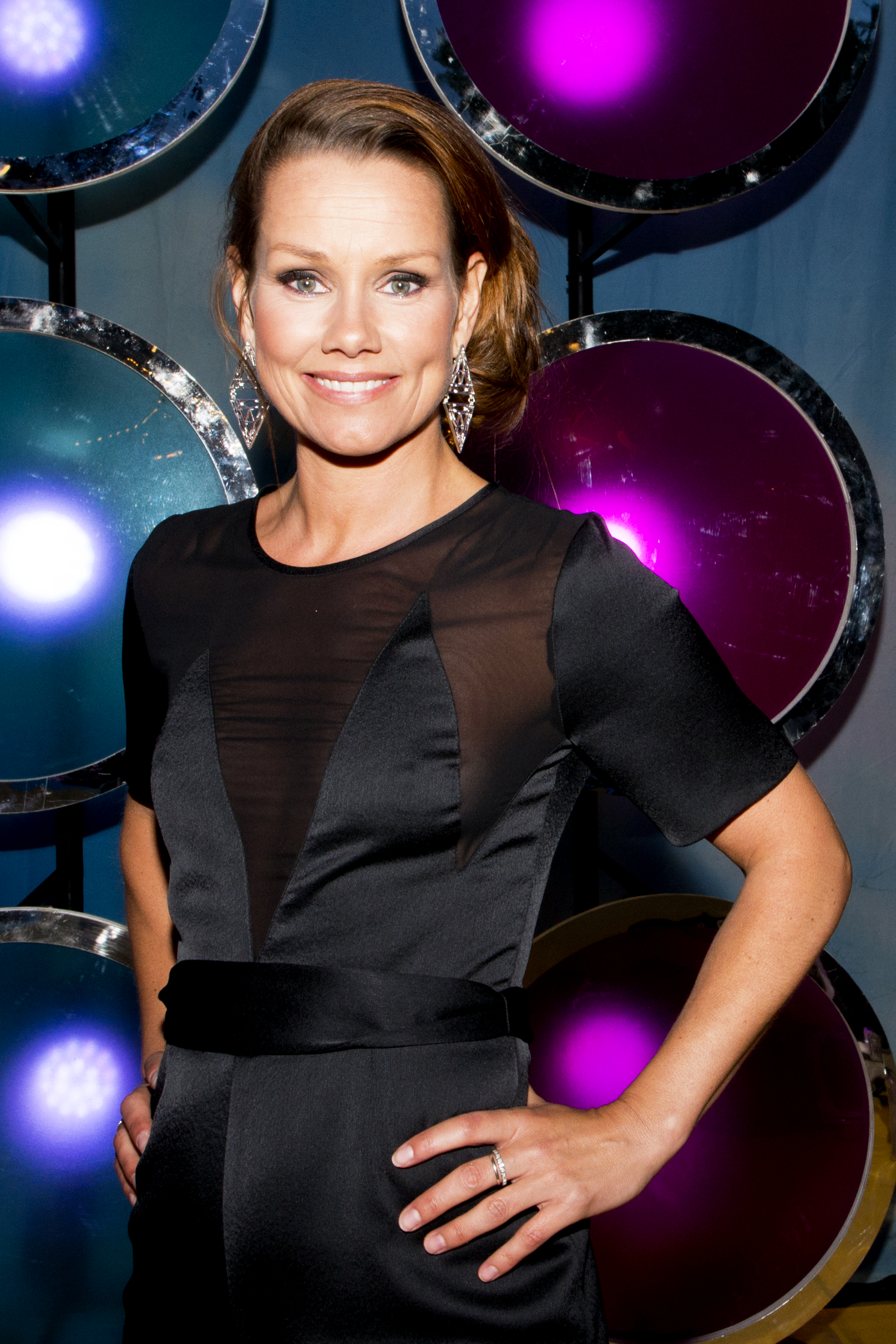 Linda Bengtzing at Sommarkrysset